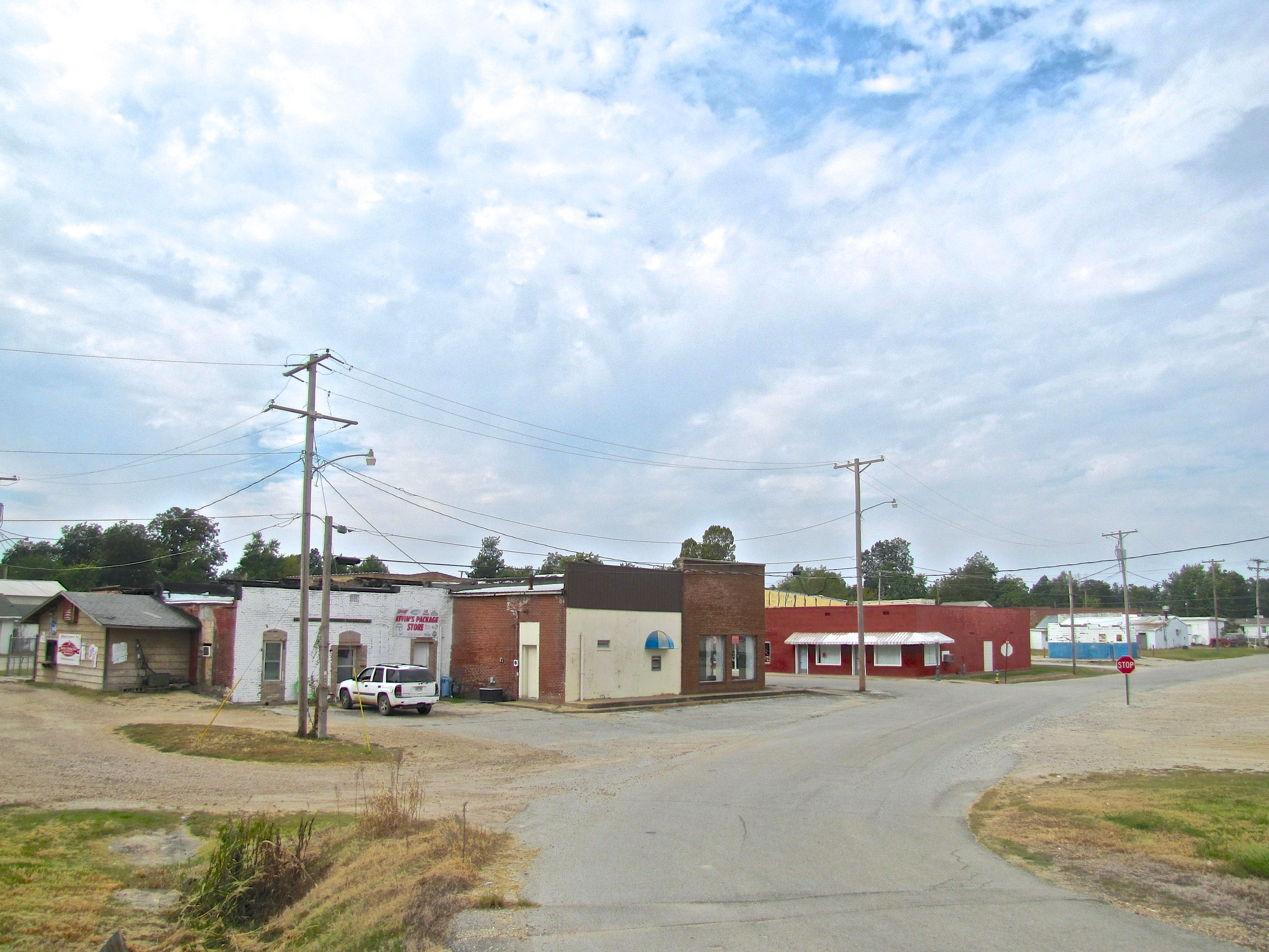 View along Industrial Avenue toward its intersection with Main Street in Marmaduke, Arkansas, United States.